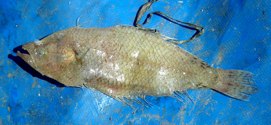 Citharus linguatula, Livorno (Italy)